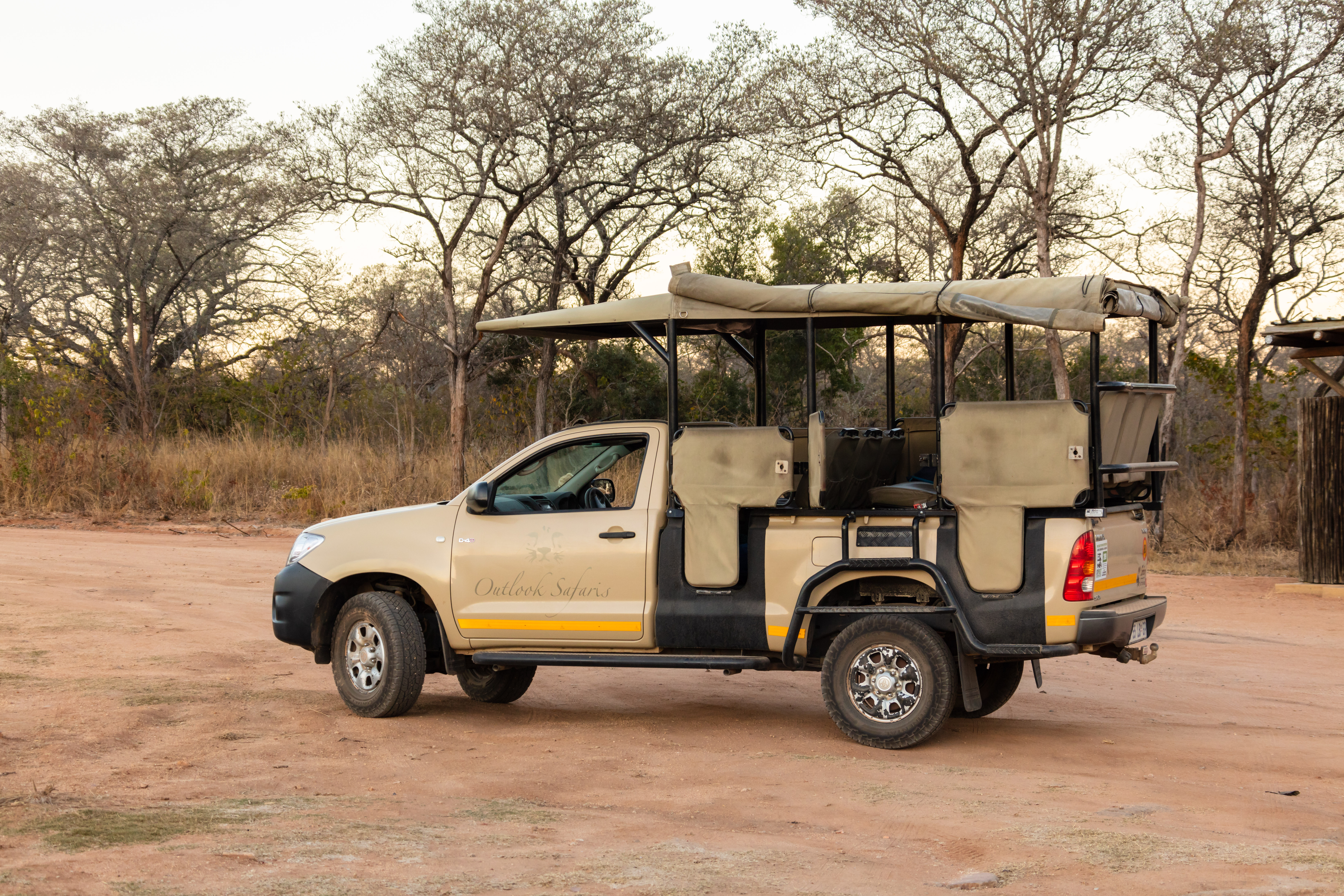 Toyota Hilux D4-D, Kruger National Park, South Africa